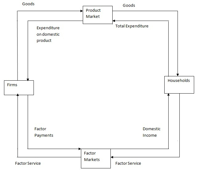 it describes how income is distributed in the economy it is called circular flow of national income